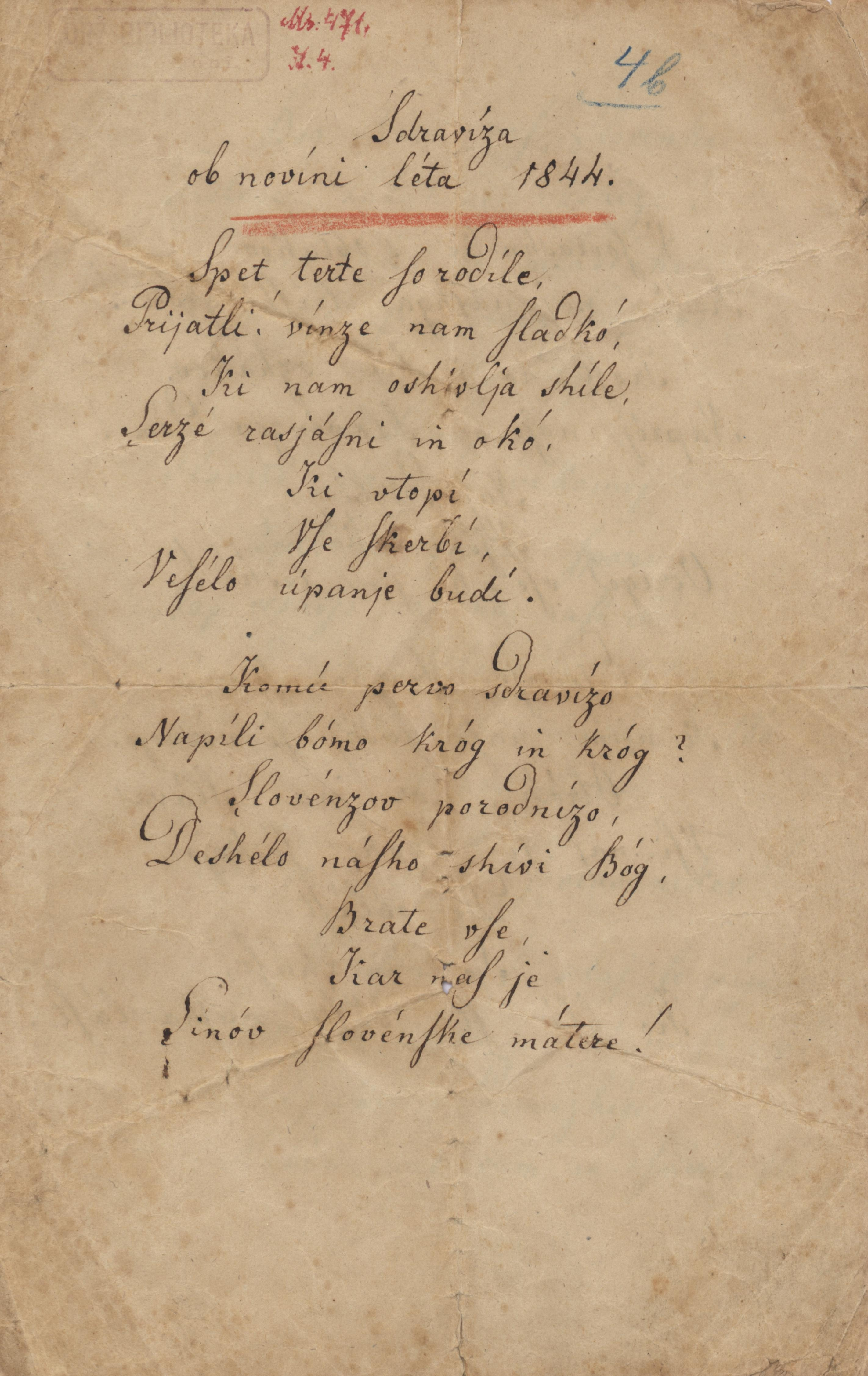 Tha Manuscript of Zdravica by France Prešeren; manuscript number 4, paper 1 of 4.